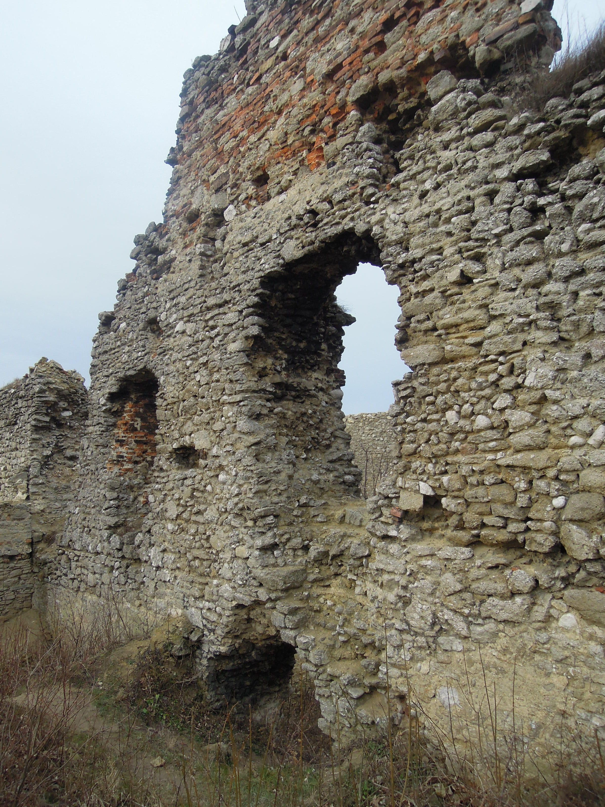 Starý Jičín Castle near Nový Jičín, Moravian-Silesian Region, Czech Republic